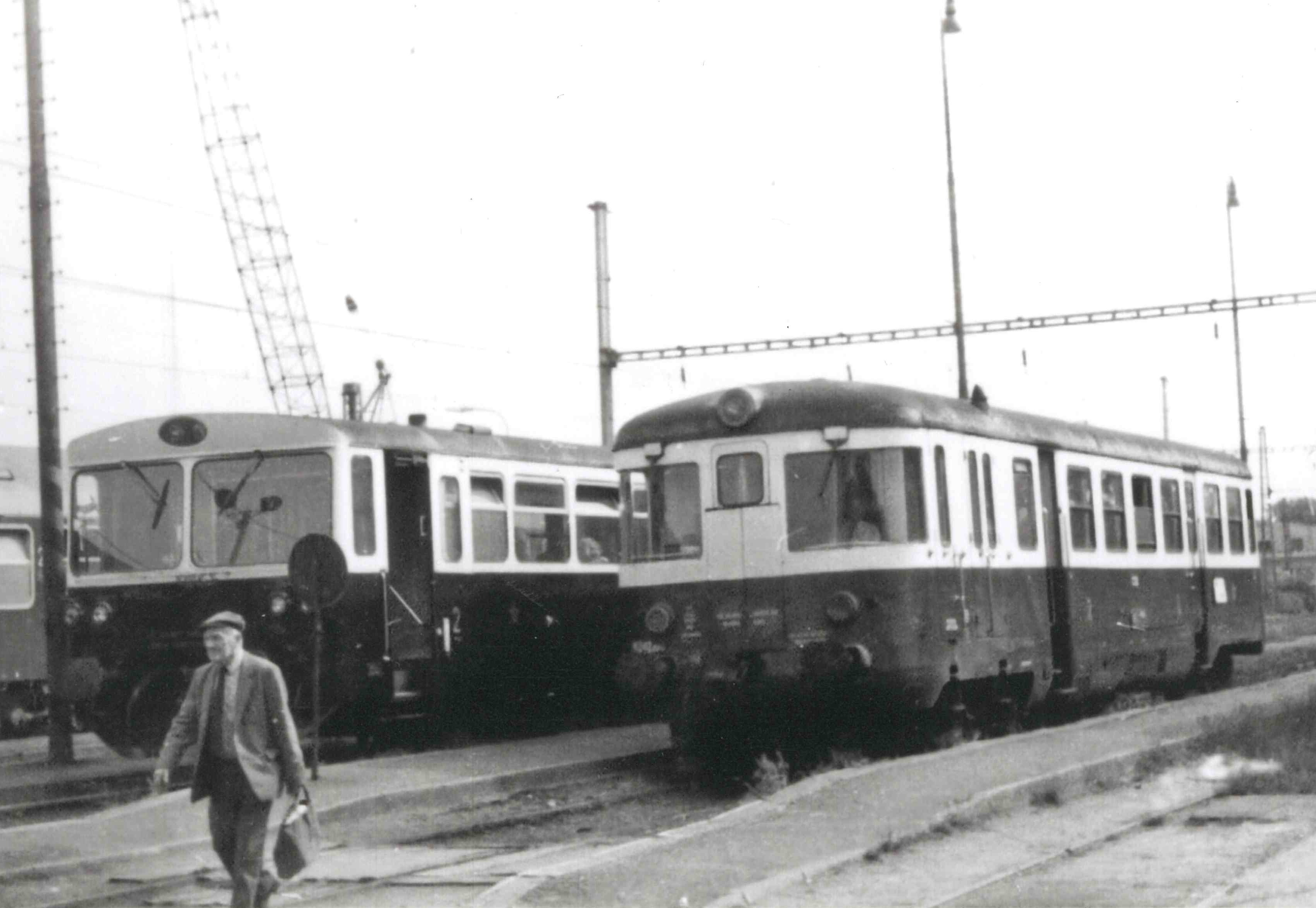 station Čelákovice